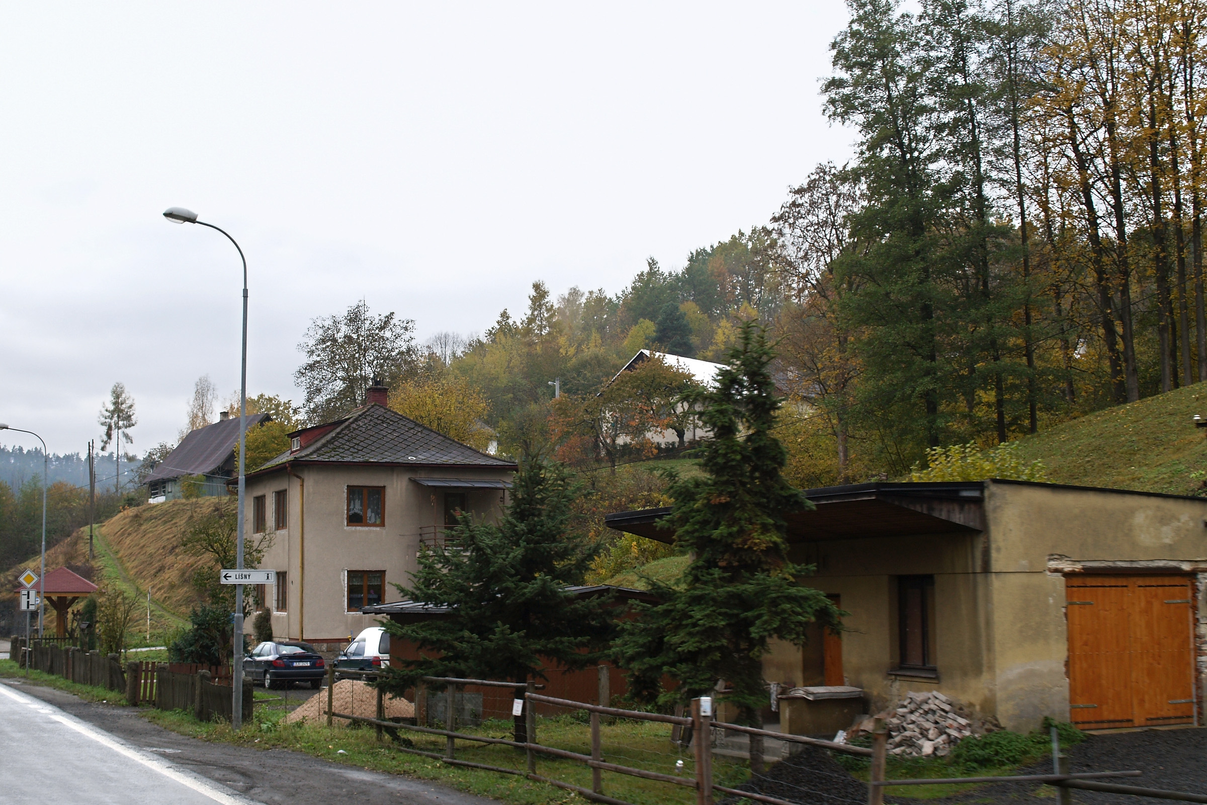 Czech village Líšný